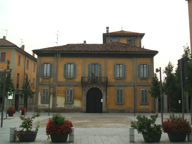 Villa Mussi